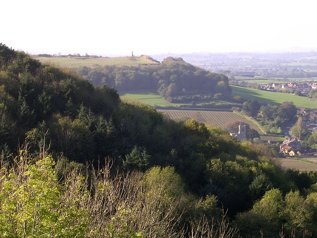 View west from the tower on St Michael's Hill, Montacute. This view is looking WNW from the top of the tower on St Michael's Hill. The wood on the slopes of Hedgecock Hill are deep in shadow on this autumn afternoon. Beyond this is the northern spur of Hamdon Hill, with its Iron Age ramparts and the prominent Stoke-sub-Hamdon war memorial. Nestling in "The Coombe" between Hamdon Hill and Hedgecock Hill is the parish church of St Mary, Stoke-sub-Hamdon.